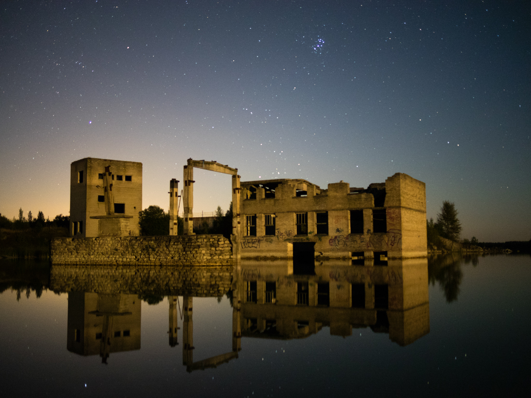 Original description: Rummu @ night Remains of Rummu quarry utility buildings immersed in lakewater and standing against the backdrop of the night sky. The quarry was being mined for limestone by the inmates of the adjacent Murru prison. As mining eventually ceased and the local water drainage station stopped working in the 1990s, the groundwater quickly inundated the quarry. The prison facility itself was closed on 31 December, 2012. The image depicts several buildings, so no one building has sole focus. The utility buildings don't appear to have any artistic value and were built after a type-project template to prison requirements.